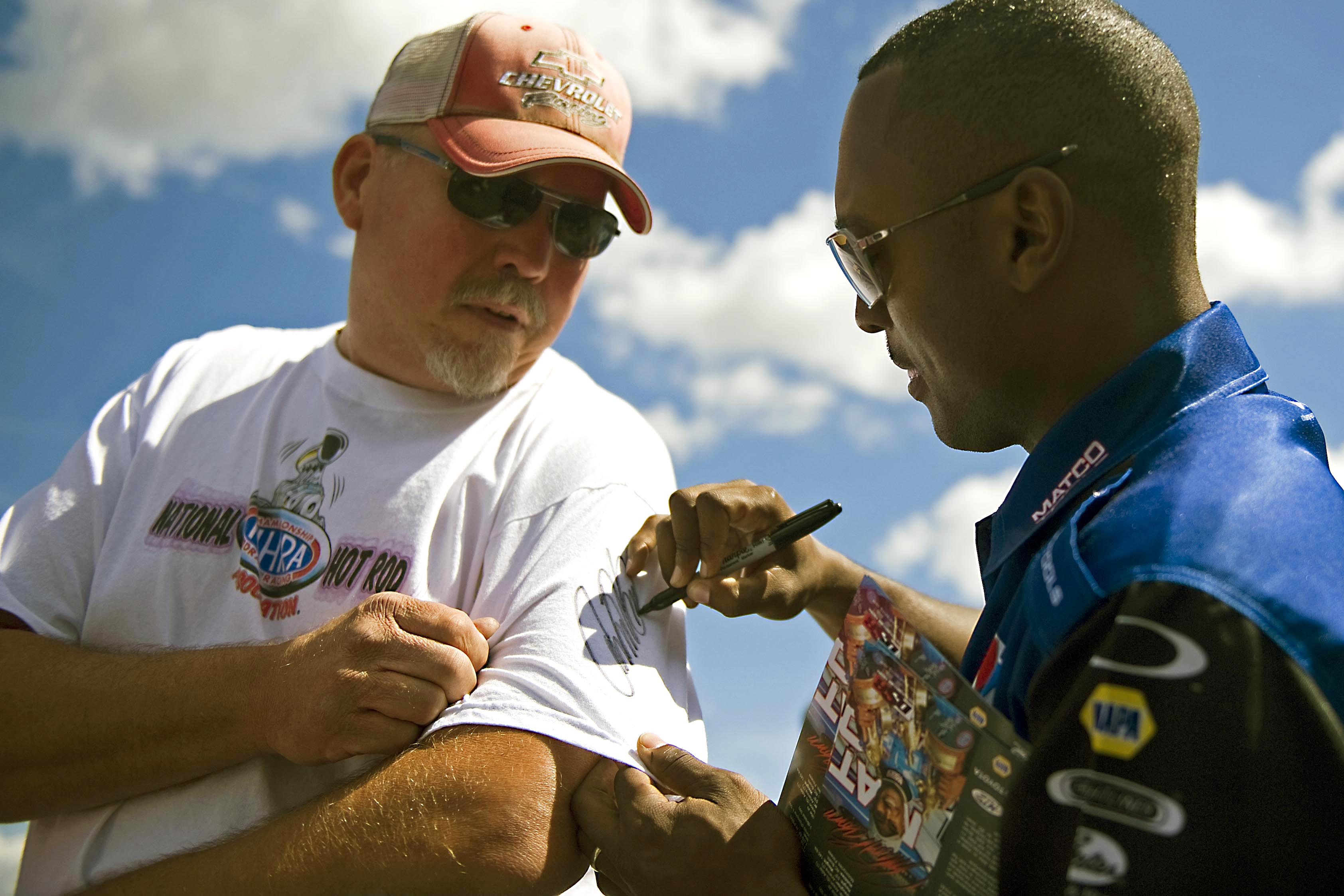 Antron Brown autographs a fan’s sleeve during an open house held at the Don Schumacher Racing facility to coincide with the unveiling of the new U.S. Army dragster, Sept. 3, 2010. Brown is a Matco Tools and U.S. Army drag car racer.